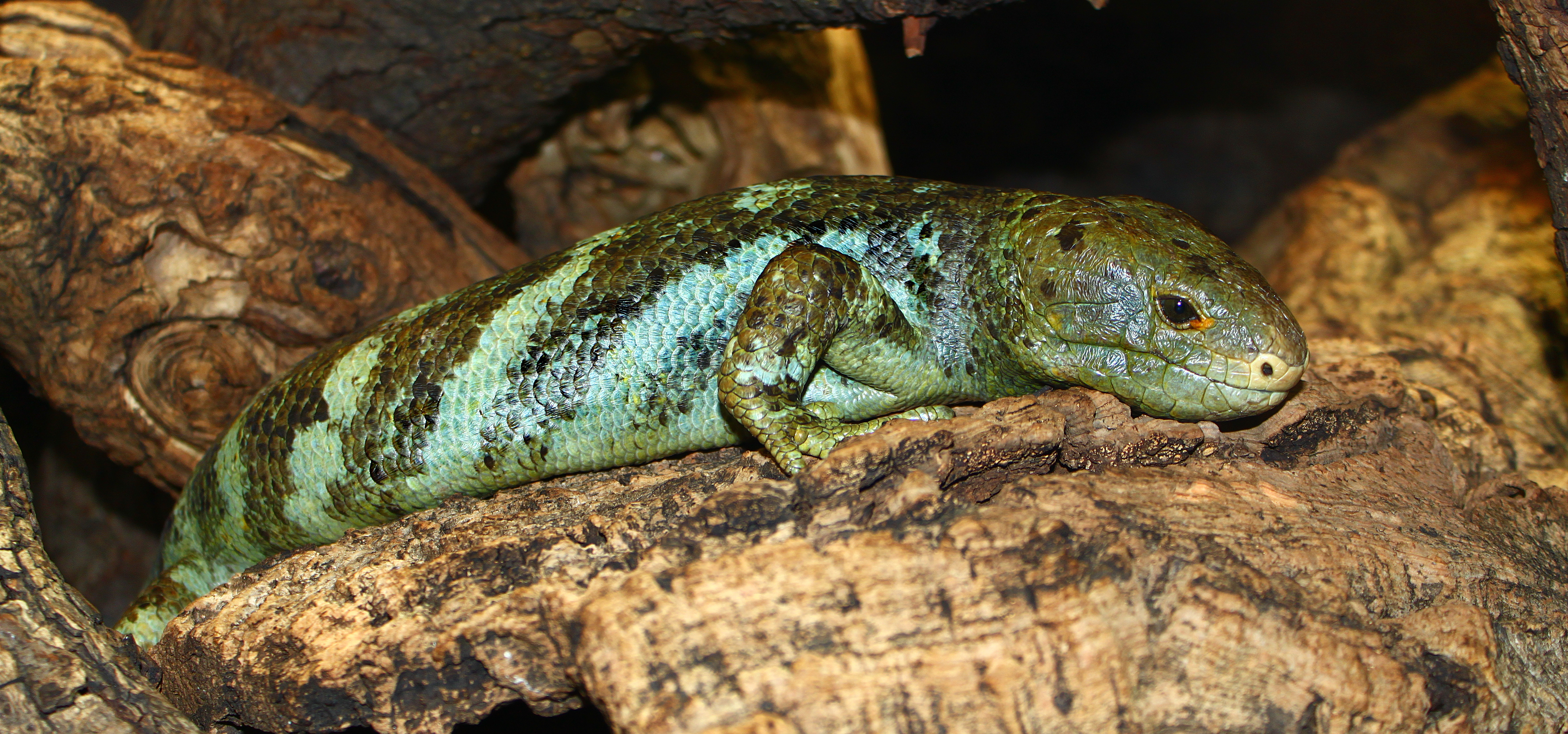 Corucia zebrata, Scincidae, Solomon Islands Skink; Staatliches Museum für Naturkunde Karlsruhe, Germany.